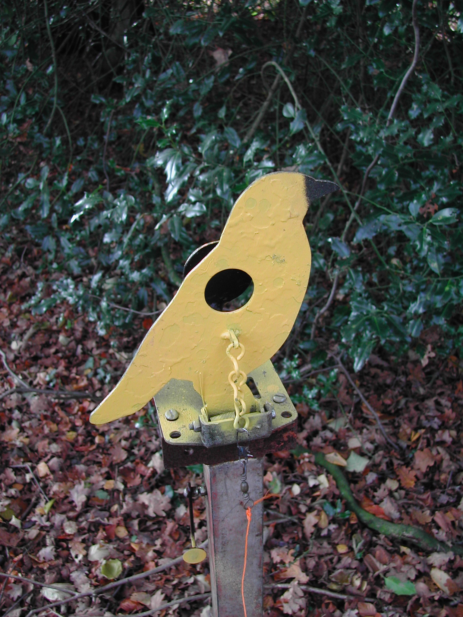 A crow-shaped, knock-over metal air gun target mounted on a stanchion in woodland. Note the black painted metal paddle that causes the target to fall over when hit, and the orange reset cord attached to the faceplate via a short length of chain to reduce the chance of cutting the string with a pellet if the "kill" zone is missed. I took this photograph at my Field Target club on December 2nd 2007 for use in the "Field Target" article, and release it for public use.